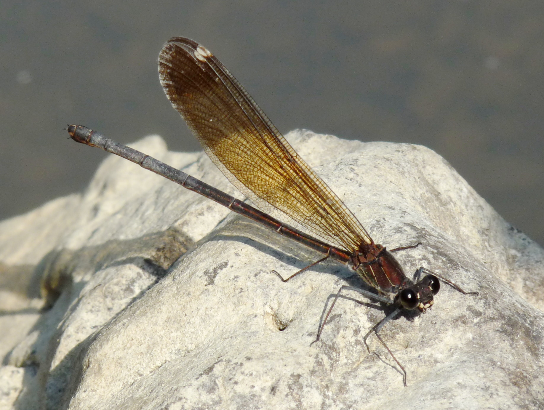 Calopteryx haemorrhoidalis (female), near Livorno, Tuscany, Italy